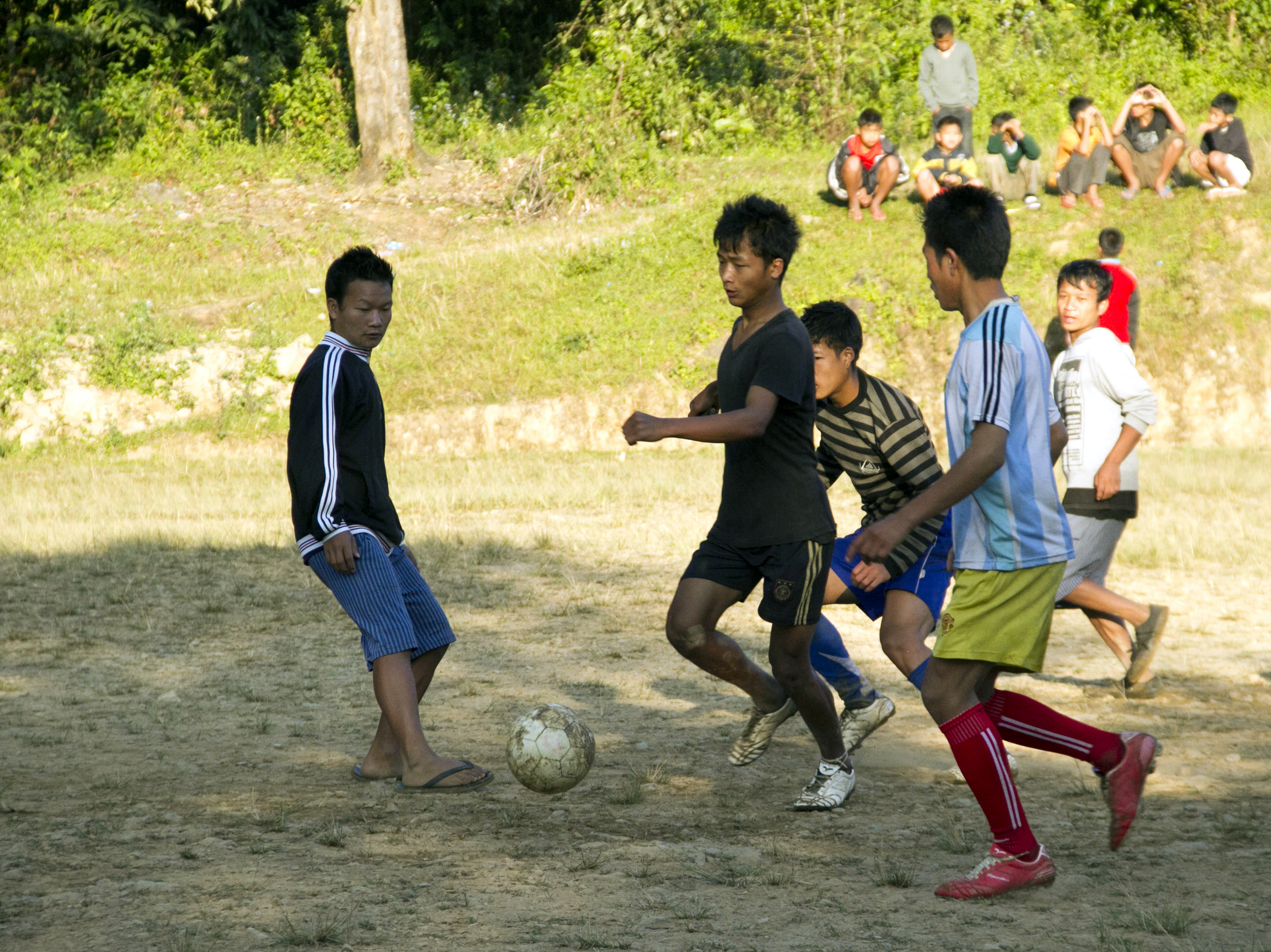 An informal game of Soccer (football) being played in Manipur, north-east India